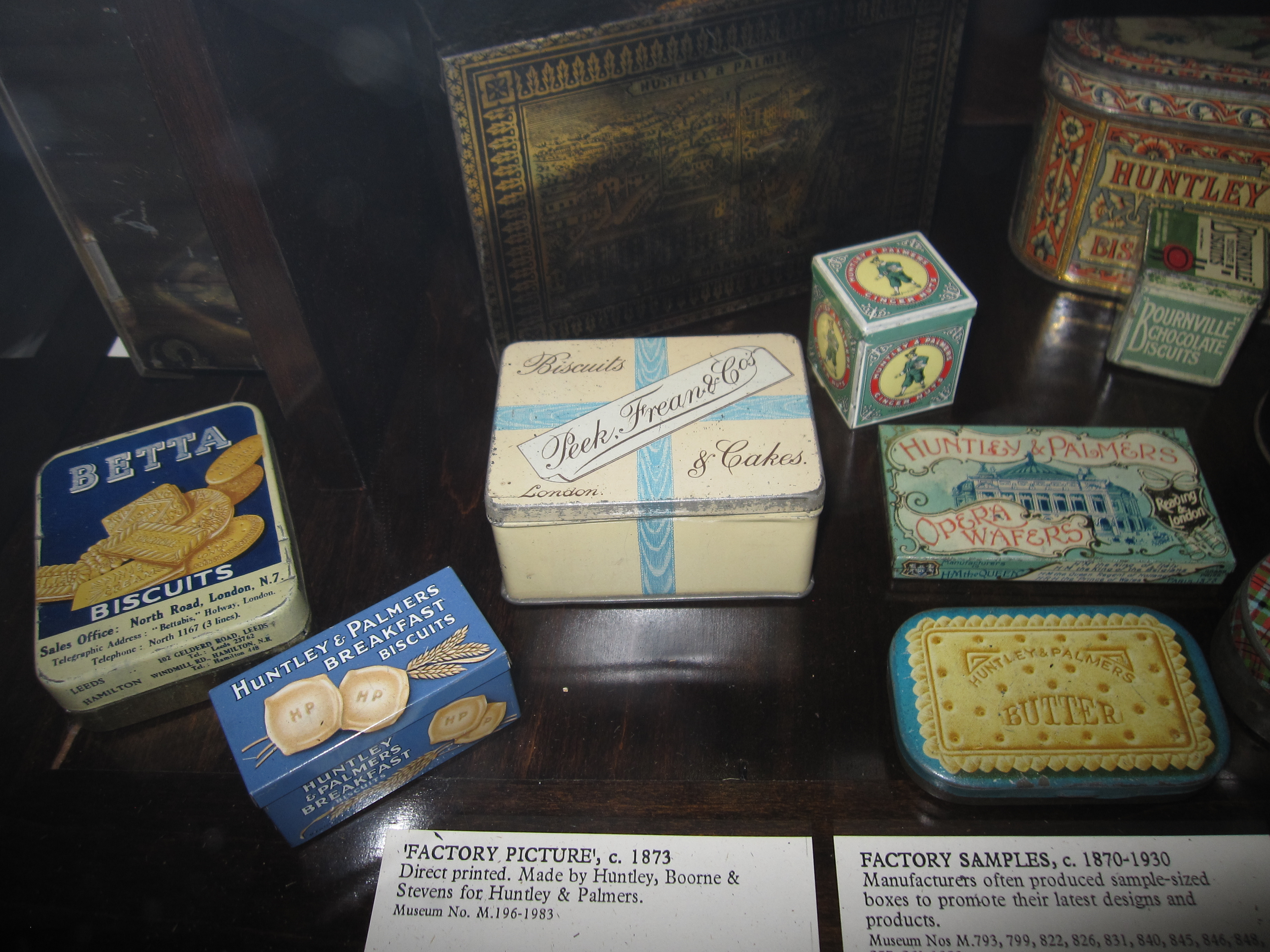 Factory samples, c. 1870-1930. Manufacturers often produced sample-sized boxes to promote their latest designs and products. Victoria and Albert Museum.